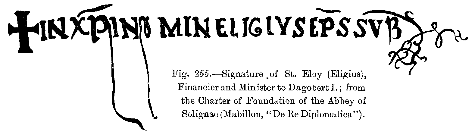 Signature of St. Eloy (Eligius), Financier and Minister to Dagobert I.; from the Charter of Foundation of the Abbey of Solignac (Mabillon, "Da Re Diplomatica"). from the Charter of Foundation of the Abbey of Solignac (Mabillon, "Da Re Diplomatica").